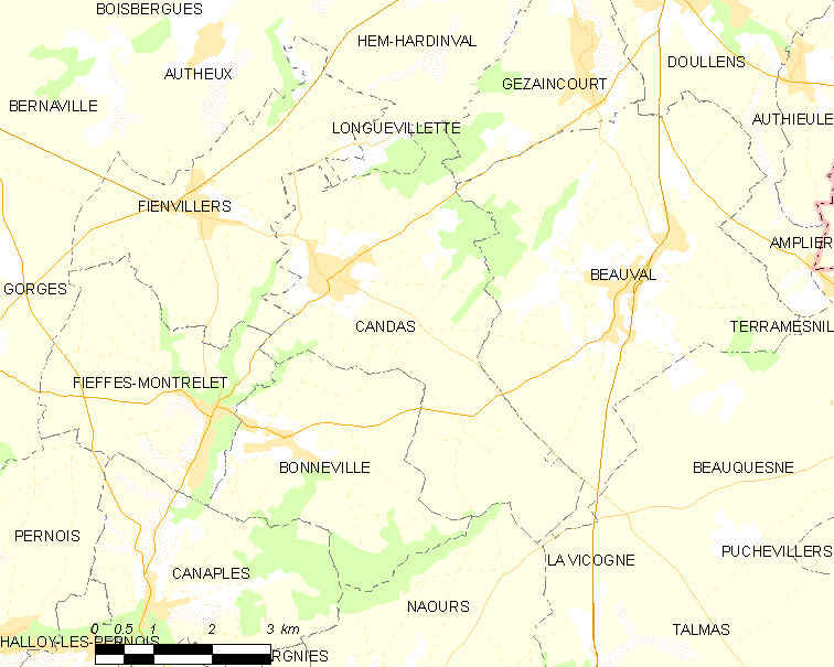 Map of French municipality Candas